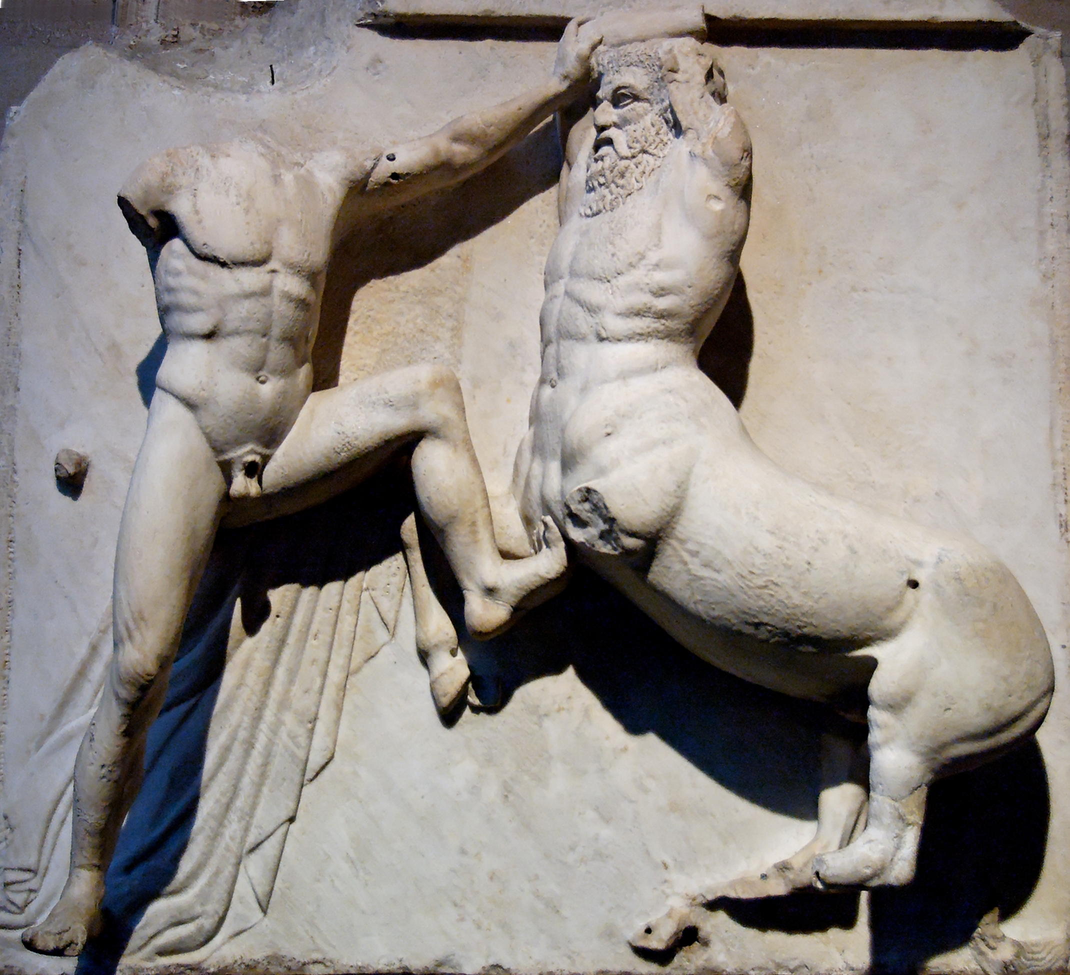 Lapith fighting a centaur. South Metope 26, Parthenon, ca. 447–433 BC.